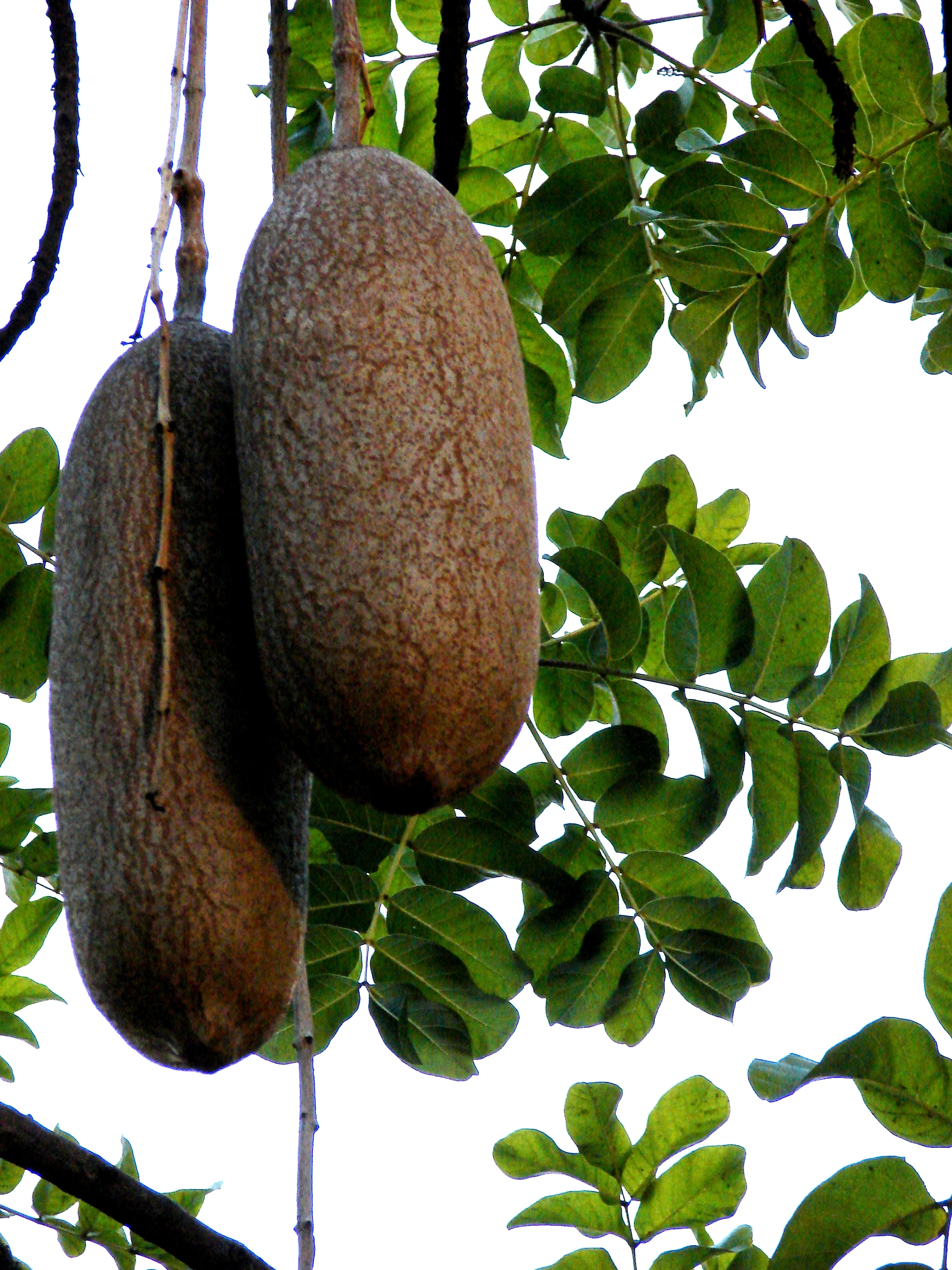 Kigelia africana (fruit). Location: Oahu, Ala Moana Beach Park